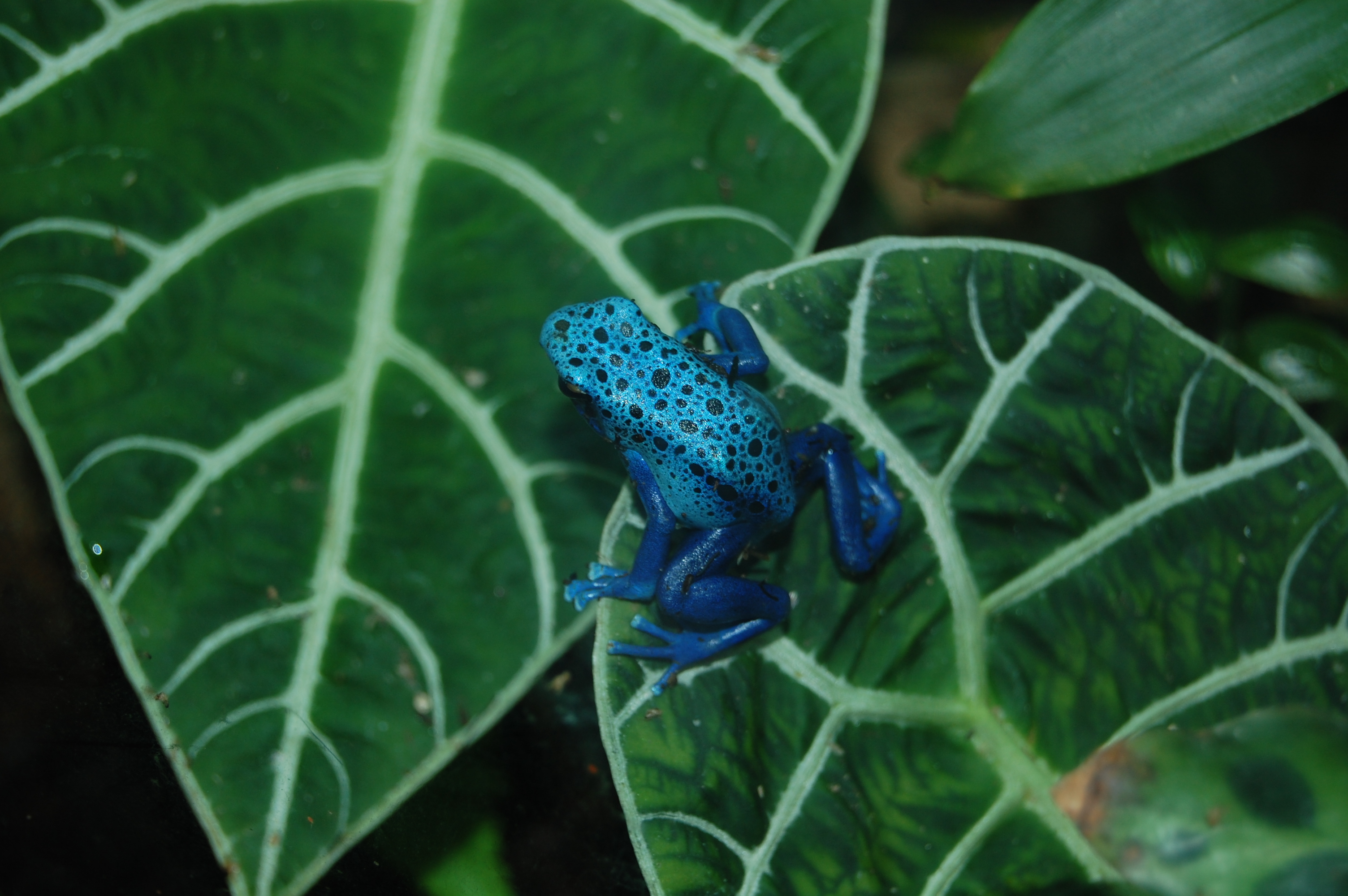 Poison dart frog (family Dendrobatidae), Sapphire blue species, taken at the Atlanta Botanical Garden in the Fuqua Conservatory